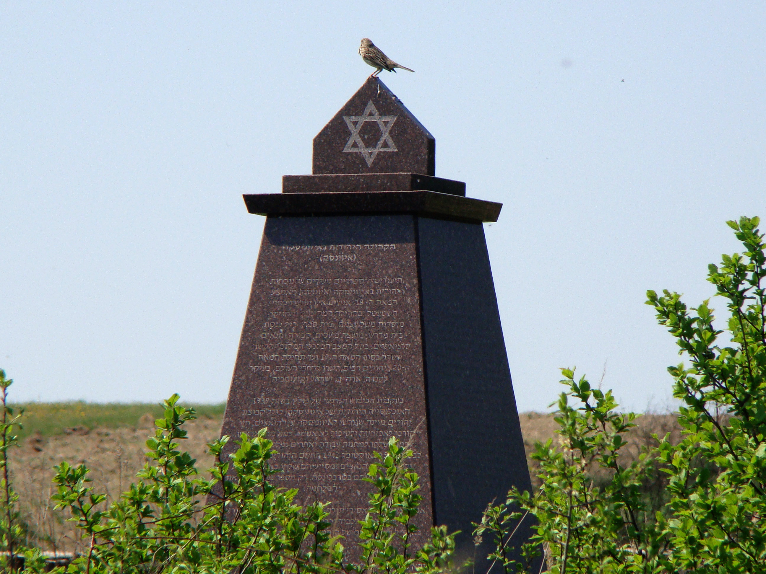 Jewish cemetery in Iwaniska - monument